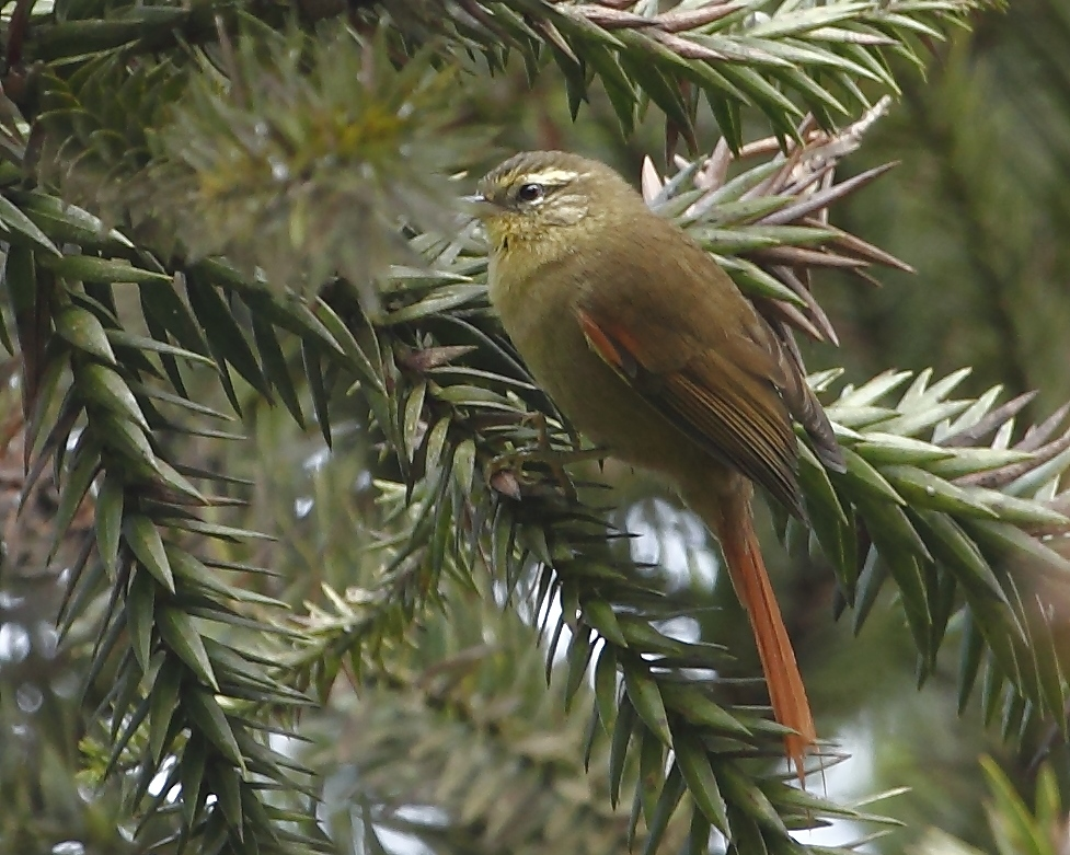 Olive Spinetail; Urupema, Santa Catarina, Brazil